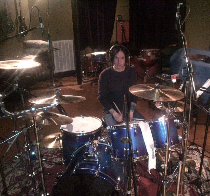 Chris Vrenna recording drums in 2013, Los Angeles, CA.